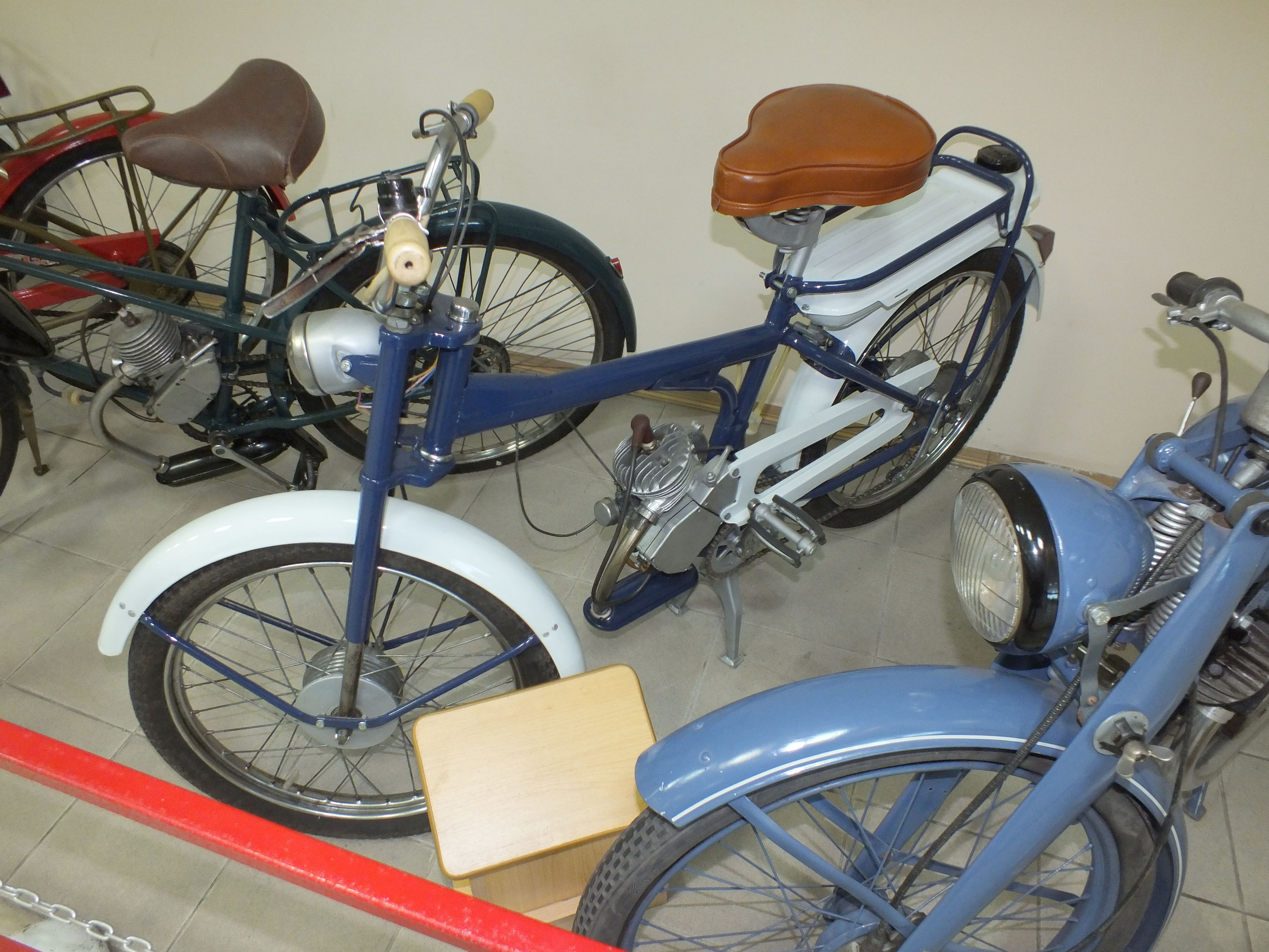 Motorcycles of Russia